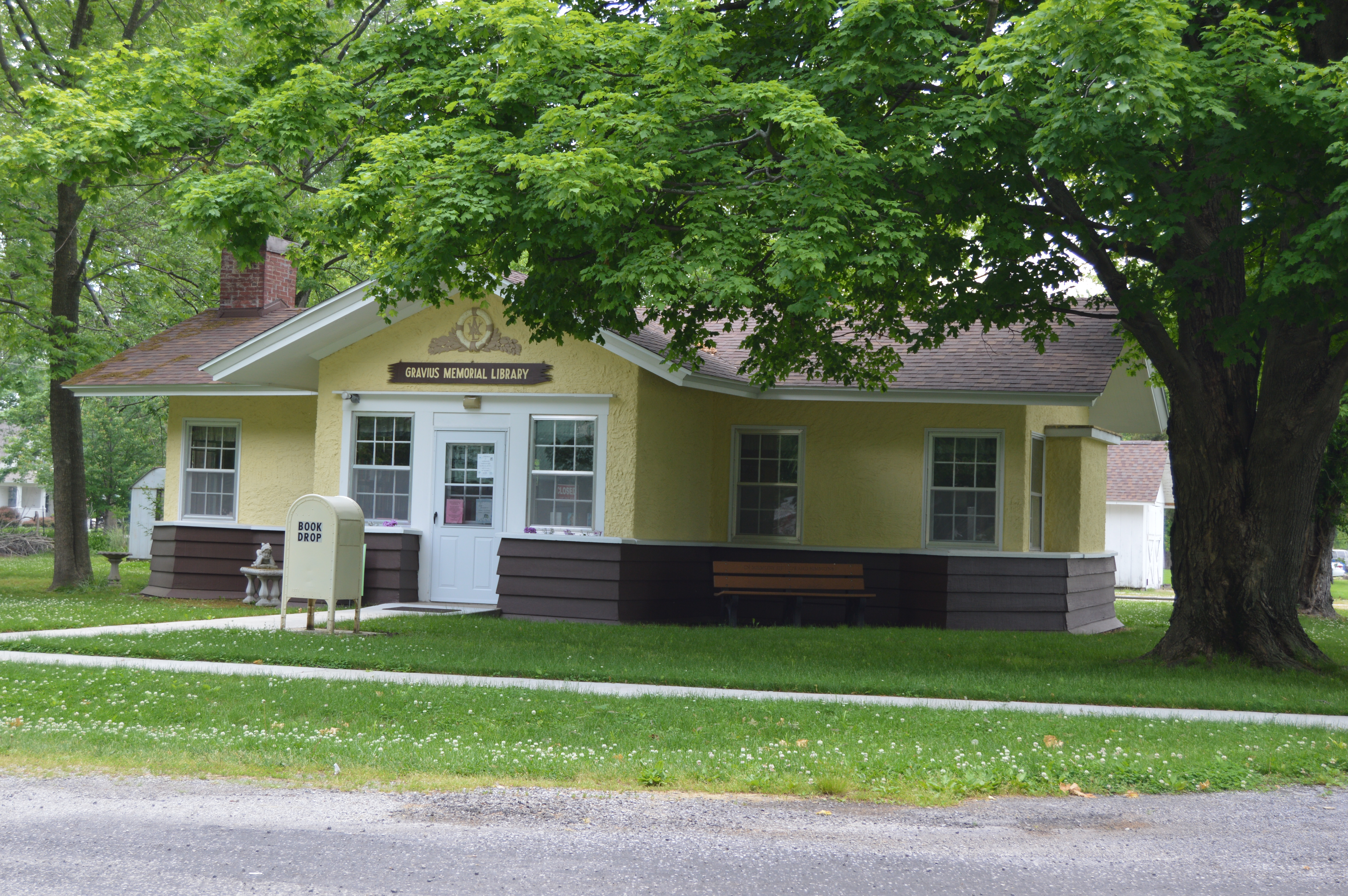 Front and western side of the Marine Chapter House of the American Women's League (now the Charles Gravius Memorial Library), located at 200 E. Silver Street in Marine, Illinois, United States. Built in 1909, it is listed on the National Register of Historic Places.